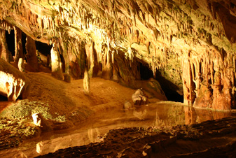 Can Marçà caves, Port de Sant Miquel, Eivissa island, Spain